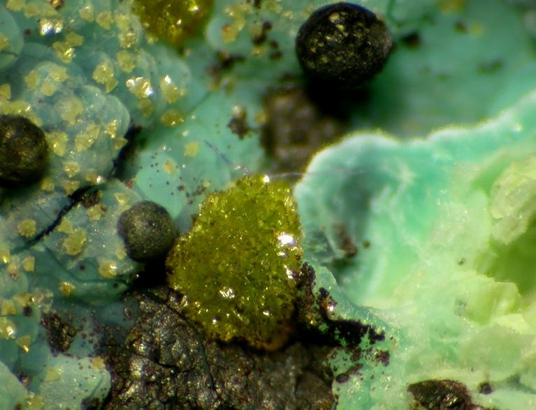 Eulytine, Namibite Locality: Hechtsberg quarry, Hausach, Black Forest, Baden-Württemberg, Germany Yellowish-green Eulytine cluster together with dark green Namibite balls and small tetrahedral Eulytine crystals on Chrysocolla. Field of view 3 mm. Specimen and photo Leon Hupperichs.